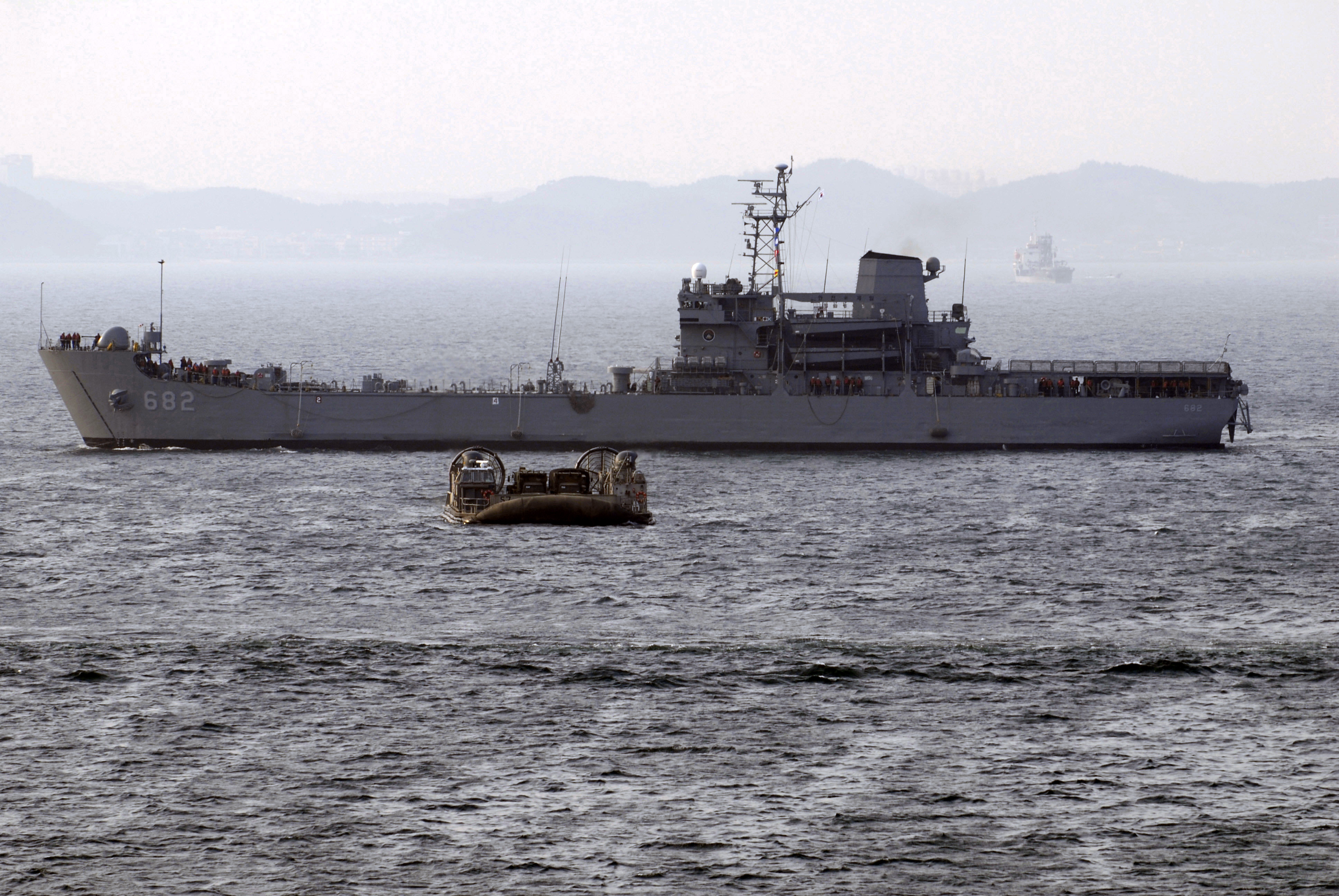 070323-N-4010S-074 POHANG, Republic of Korea (March, 23, 2007) - Republic of Korea amphibious ship Birobong (LST 682) passes behind an air cushion landing craft that is waiting to enter the well deck of amphibious assault ship USS Essex (LHD 2) during Foal Eagle 2007. Foal Eagle is an annually scheduled exercise involving forces from the U.S. and the Republic of Korea (ROK) to improve combat readiness through interoperability. Essex is the Navy's only forward deployed multi-purpose amphibious assault ship and is the flagship for the Essex Amphibious Ready Group (ARG) operating from Sasebo, Japan. U.S. Navy photo by Mass Communication Specialist Chief Ty Swartz (RELEASED)